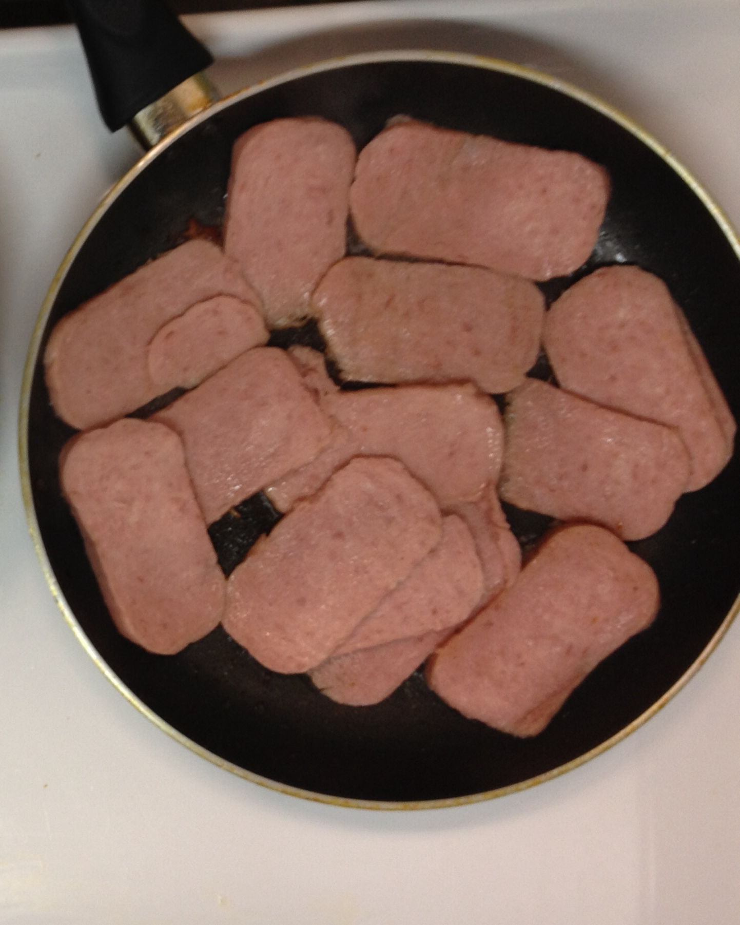 Cooking Spam in a frying pan on the stovetop